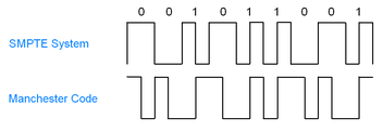 Comparison of SMPTE and Manchester codes